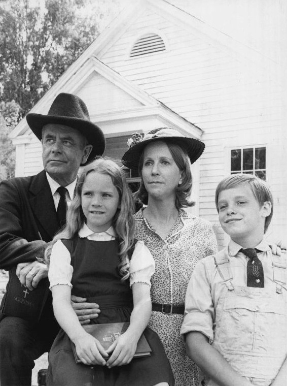 Publicity photo of actors; (L–R) Glenn Ford, Elizabeth Cheshire, Julie Harris and Lance Kerwin promoting the September 7, 1975 premiere of the NBC television series The Family Holvak.